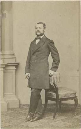 this file is a cropped version of File:Ludwig Radlkofer - Botaniker.jpg; see that file for more information; it has also been flipped to face left so that it can face into the text of various Wikipedia articles